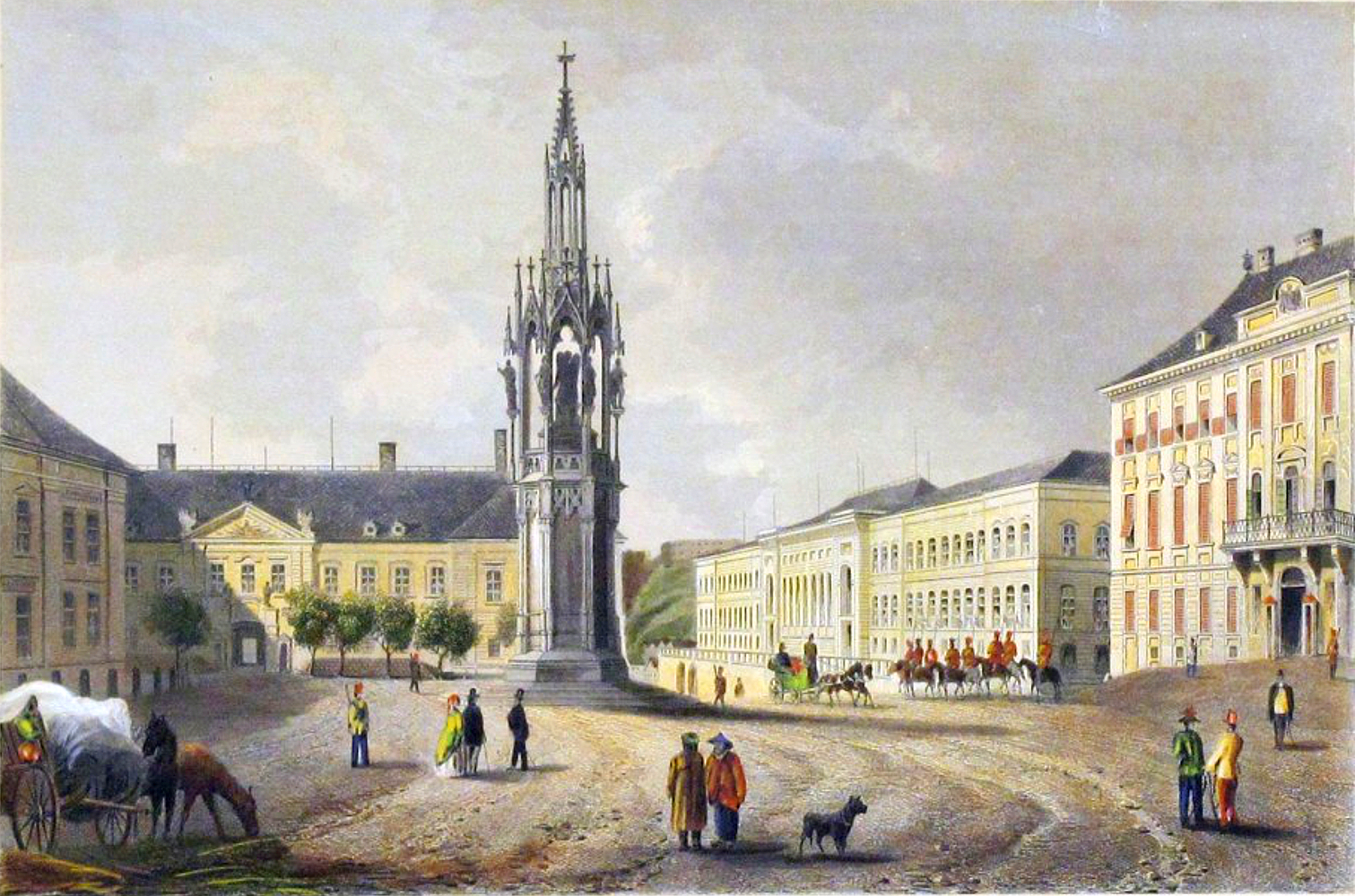 onument of Heinrich Hentzi, general of the Austrian Imperial Army, in Castle Buda, from 1852 to 1899.